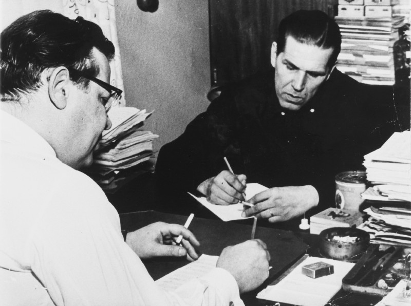 Finnish composer Toivo Kärki and lyricist Reino Helismaa in the 1950's.